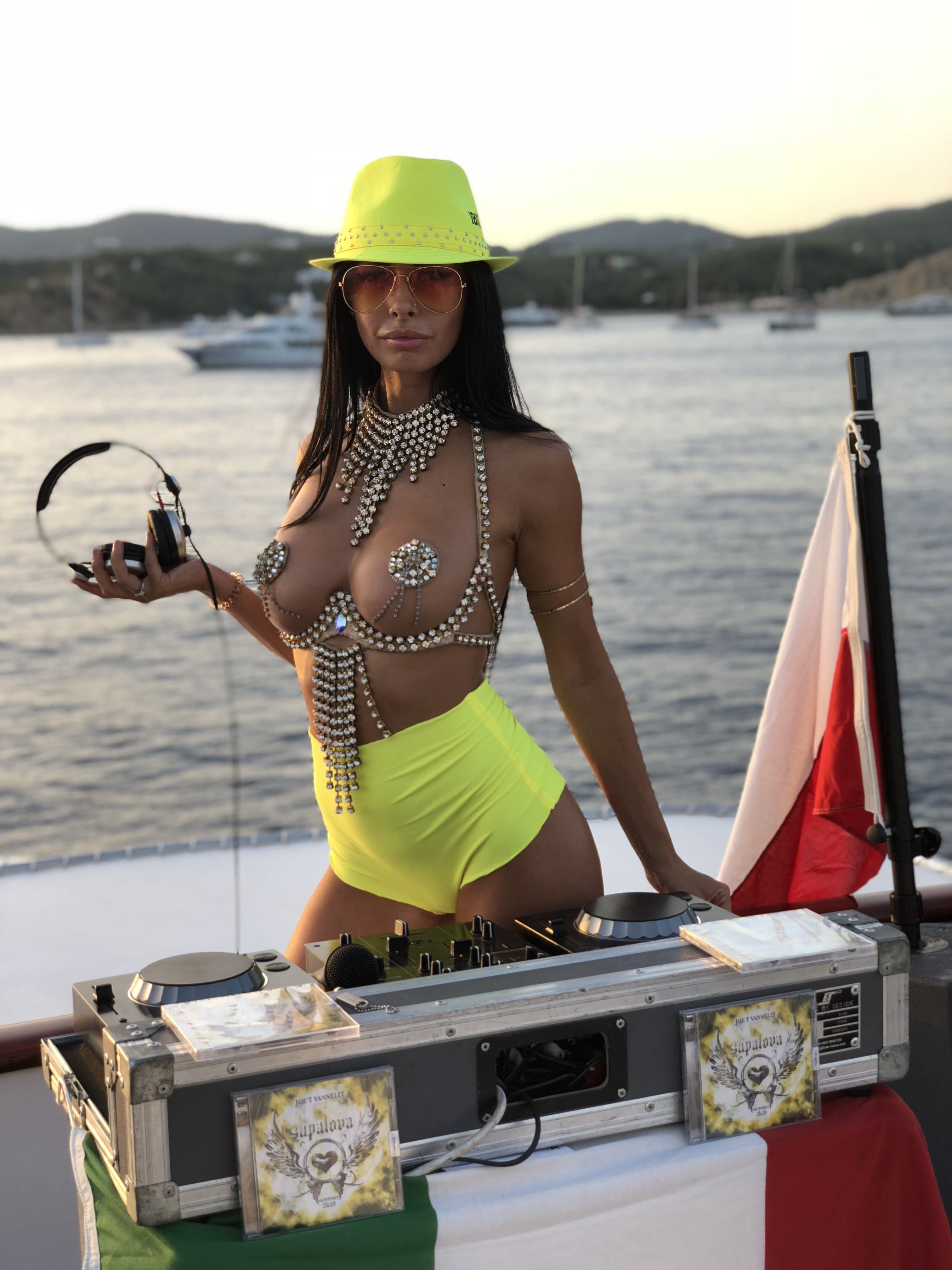 T-DJ Milana